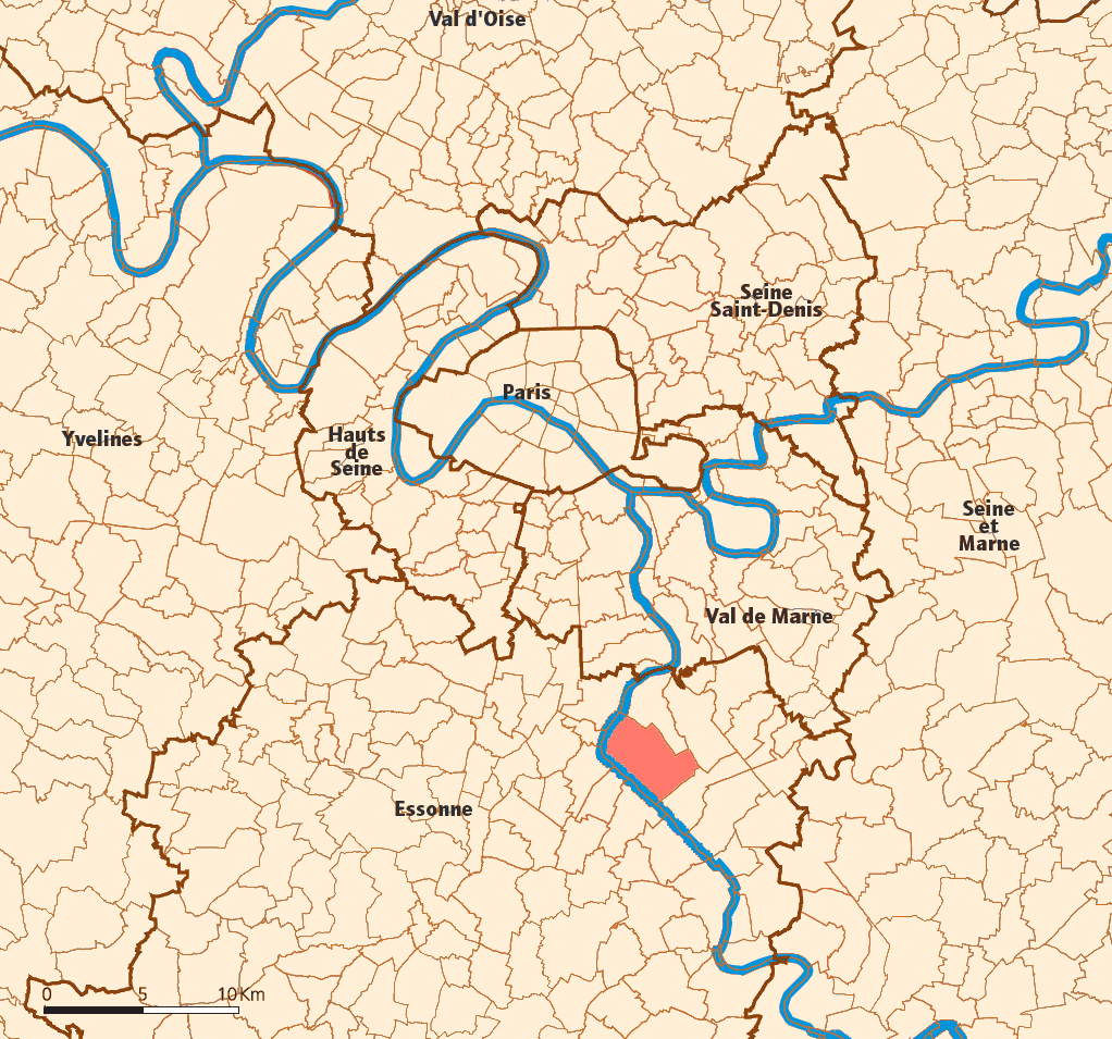 Created map myself